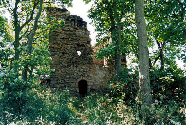 Burradon Tower remains of tower house near farm